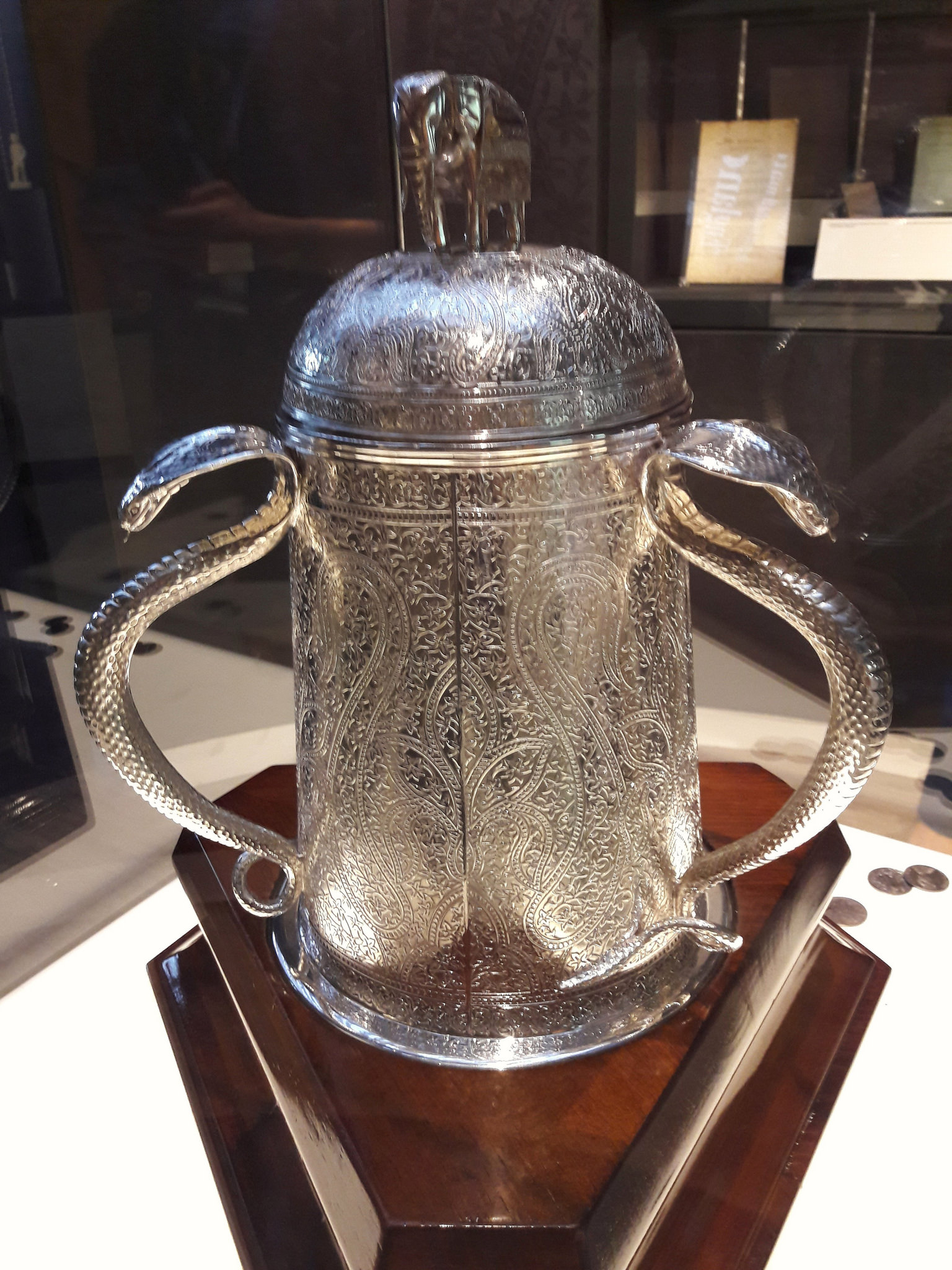 Rugby Trophy in RFU England Rugby Museum, Twickenham